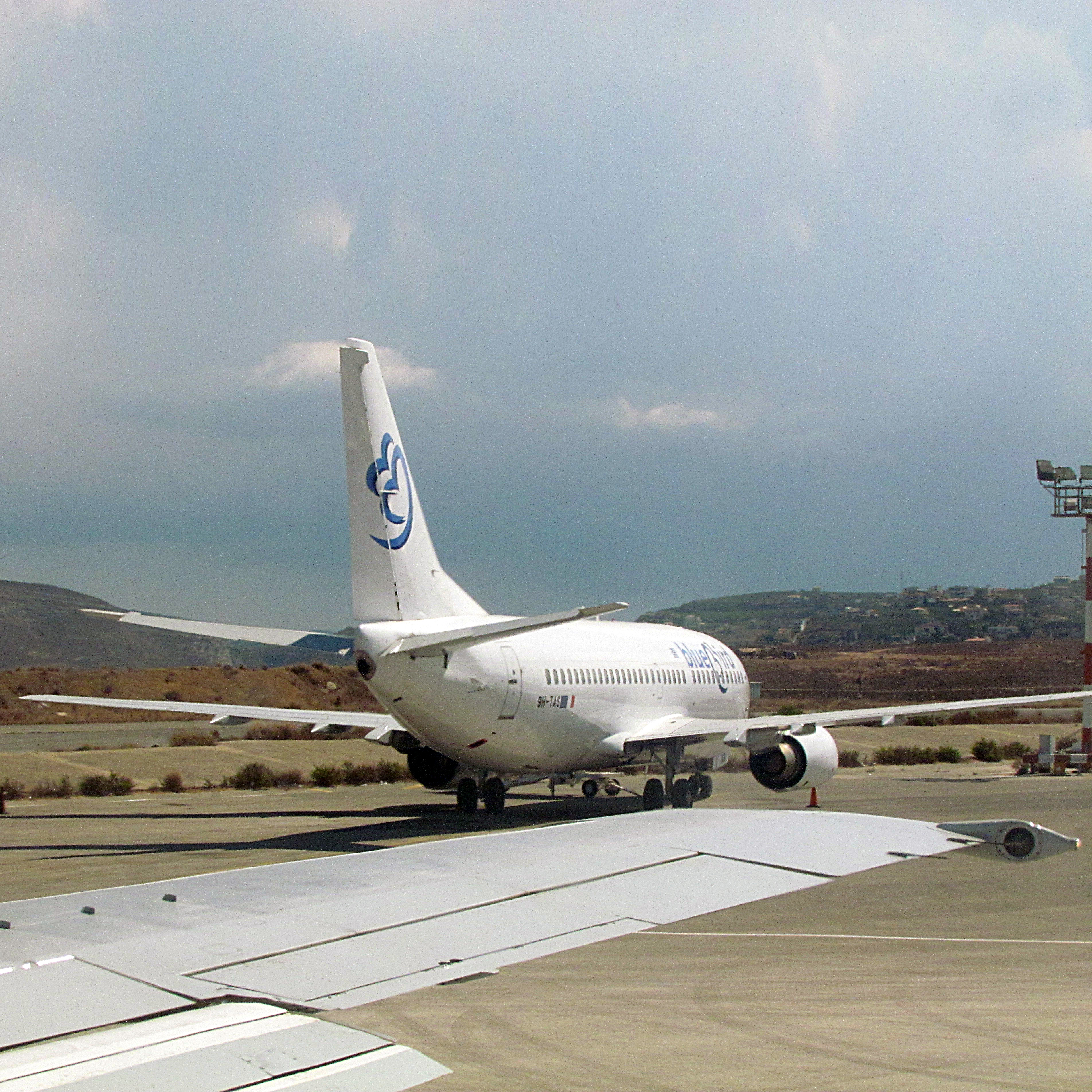 Boeing 737-3Y0, Bluebird Airways in Heraklion International Airport